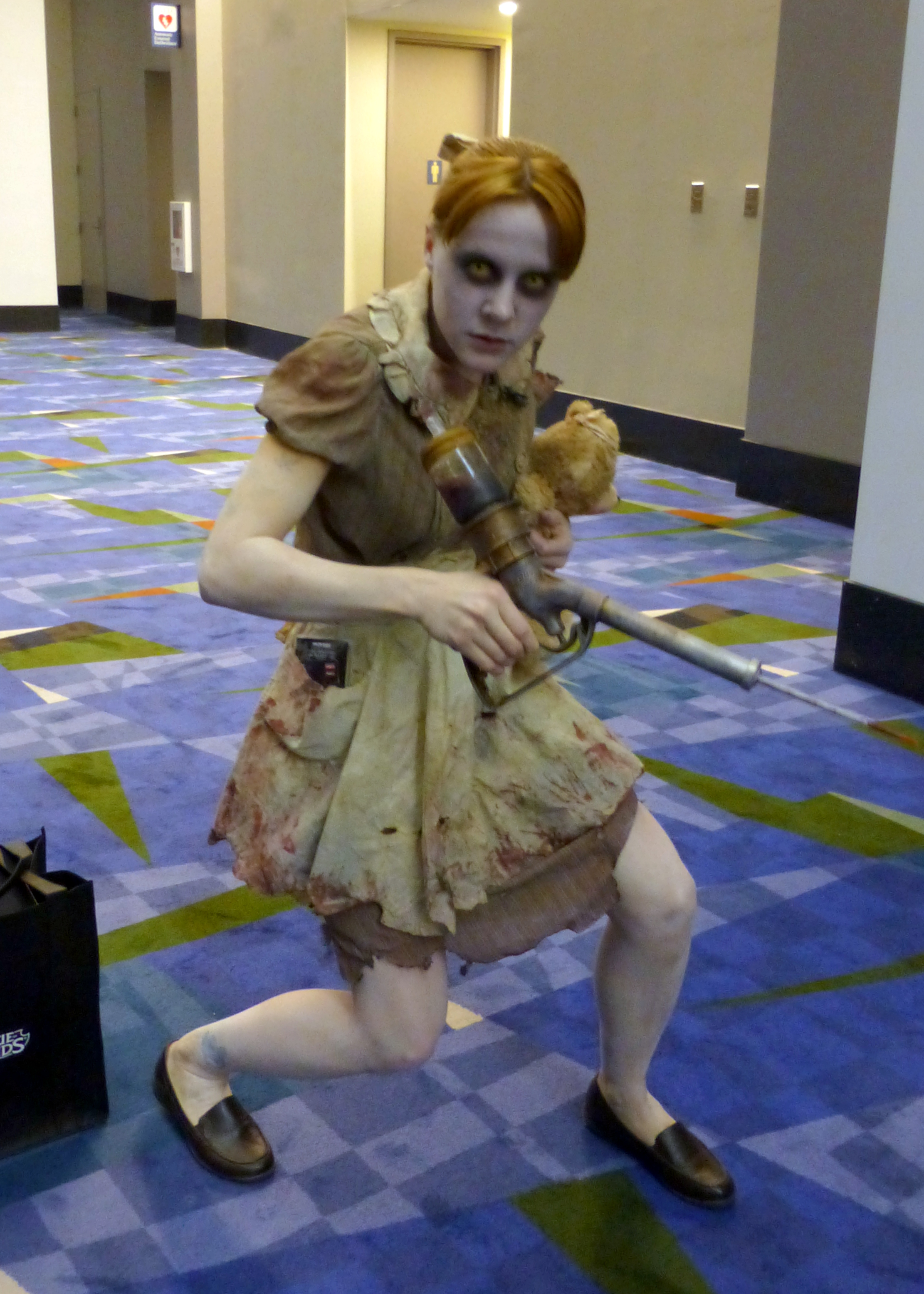 Katelyn Redinger cosplaying as a Little Sister (from BioShock) in the First Annual Chicago Comic & Entertainment Expo (C2E2) Crown Championships of Cosplay in 2014.